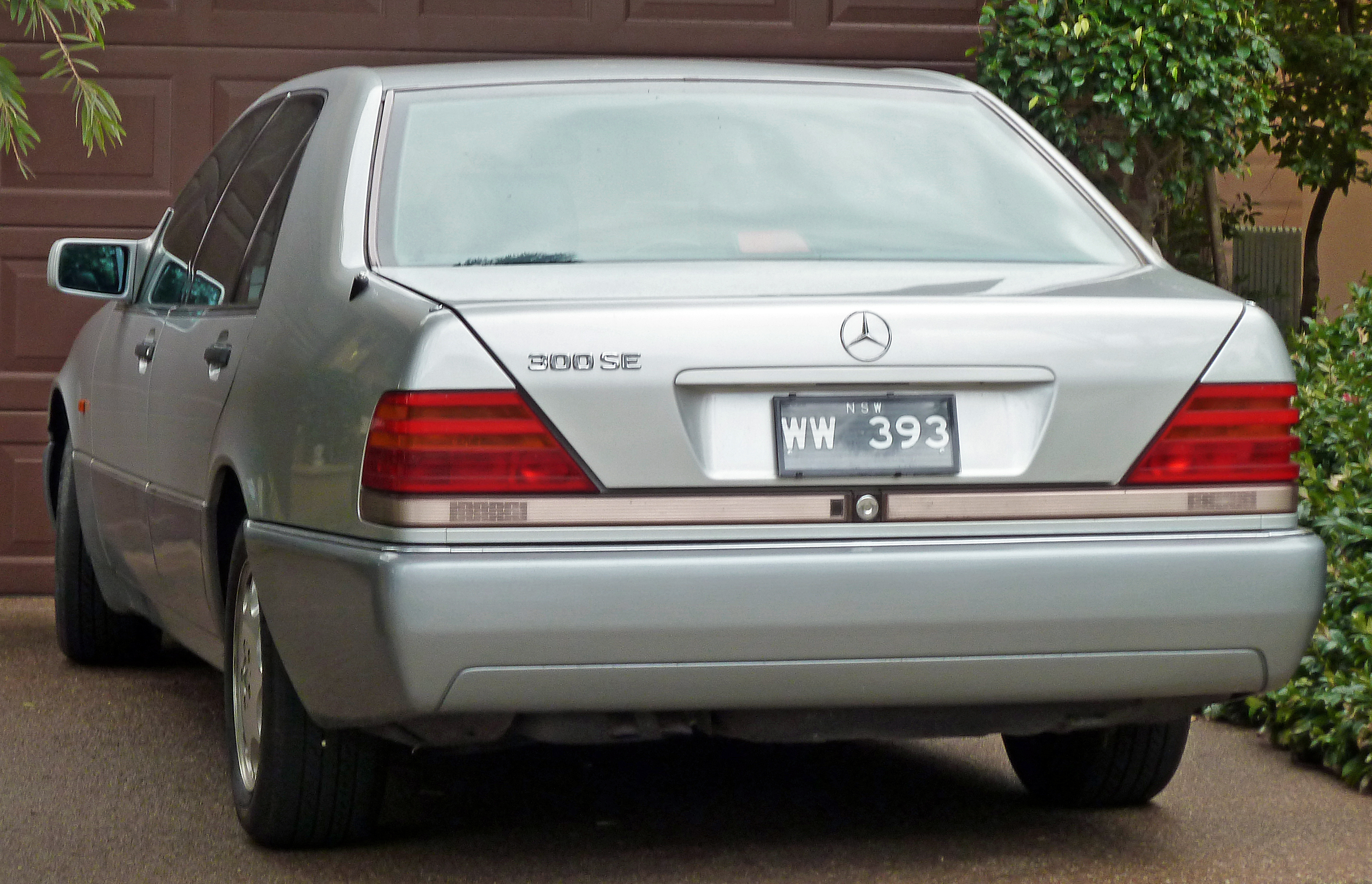 1992 Mercedes-Benz 300 SE (W 140) sedan. Photographed in Cronulla, New South Wales, Australia.